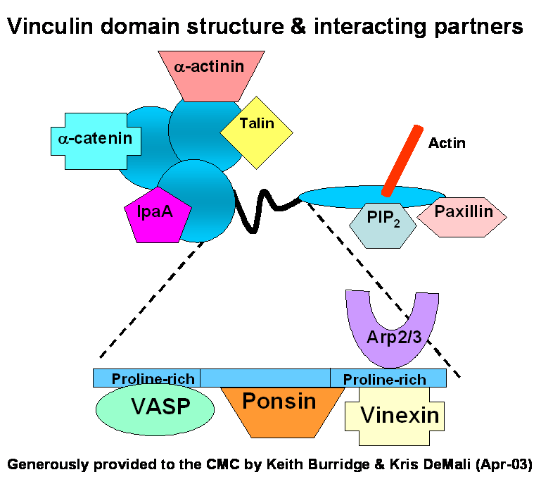 Molecular conformation of vinculin protein